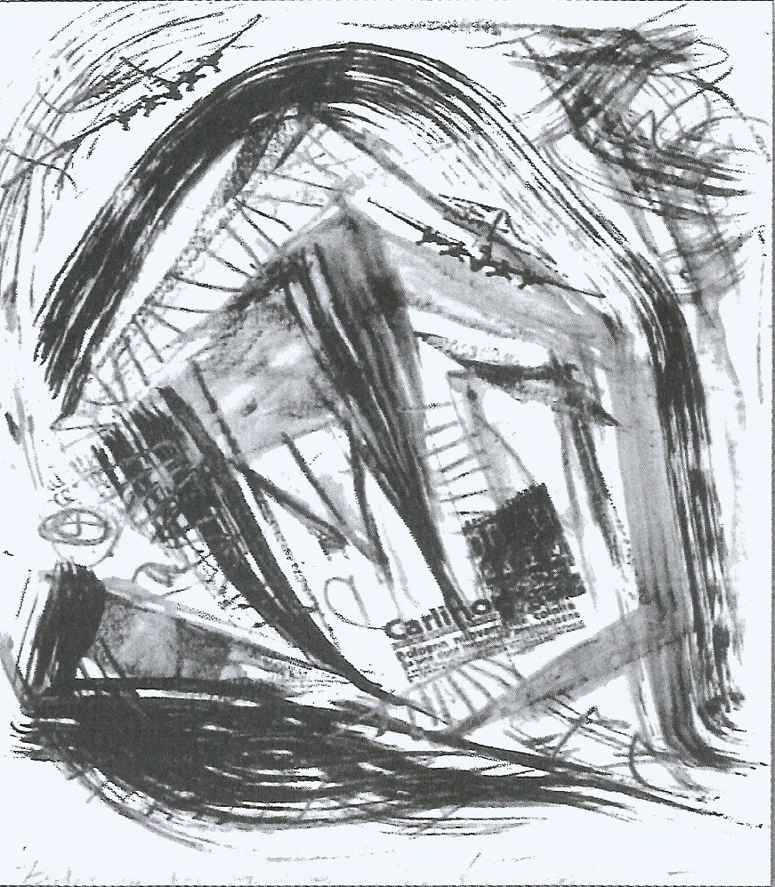 Disegno di Roberto Tirelli dal titolo "Bologna Bombardata, 1943-44". Il disegno, dedicato a Luigi Lambertini, è comparso nella rivista "Il Pepe Verde" (n. 66/2015).